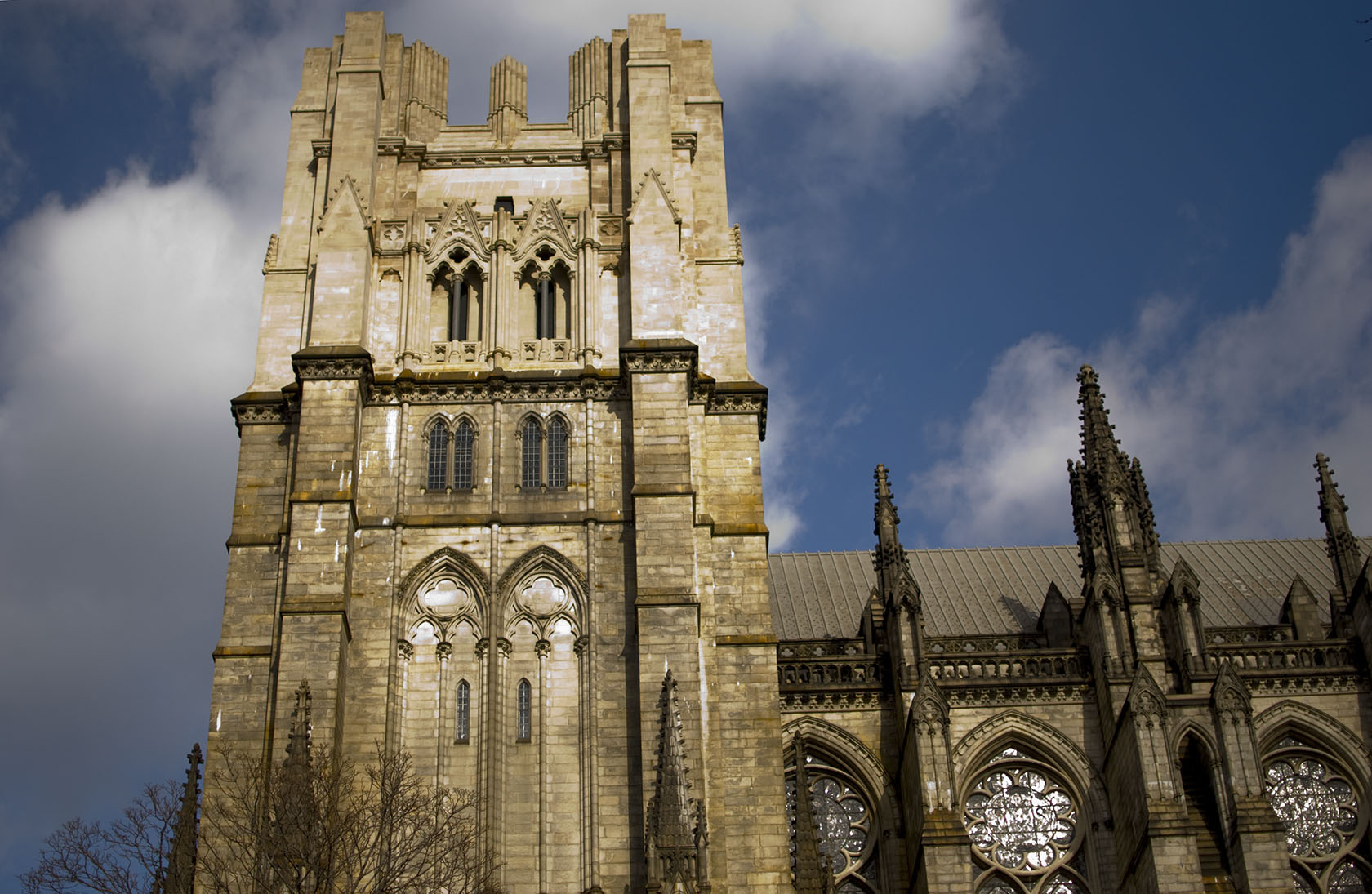 The Cathedral of St. John the Divine - Downtown Face